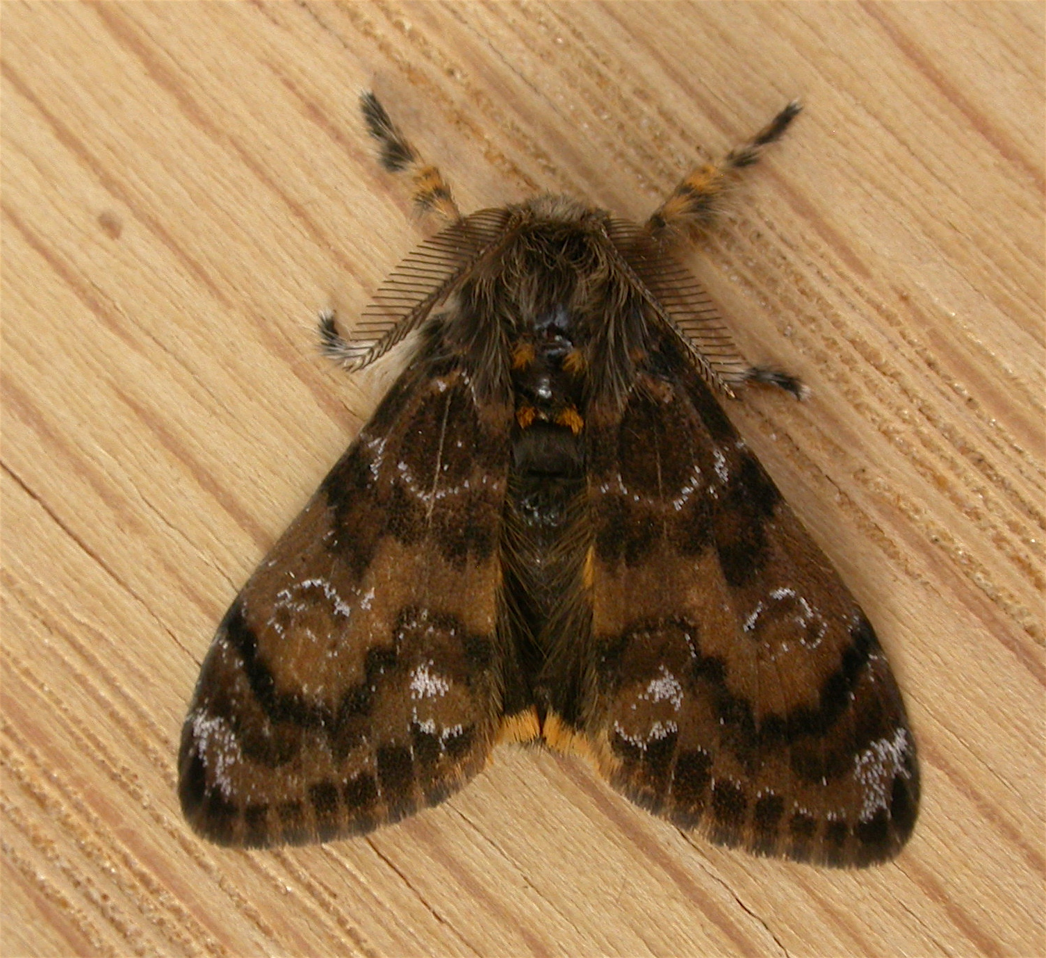 Teia anartoides Walker, 1855, to MV light, Aranda, ACT, 28/29 October 2008